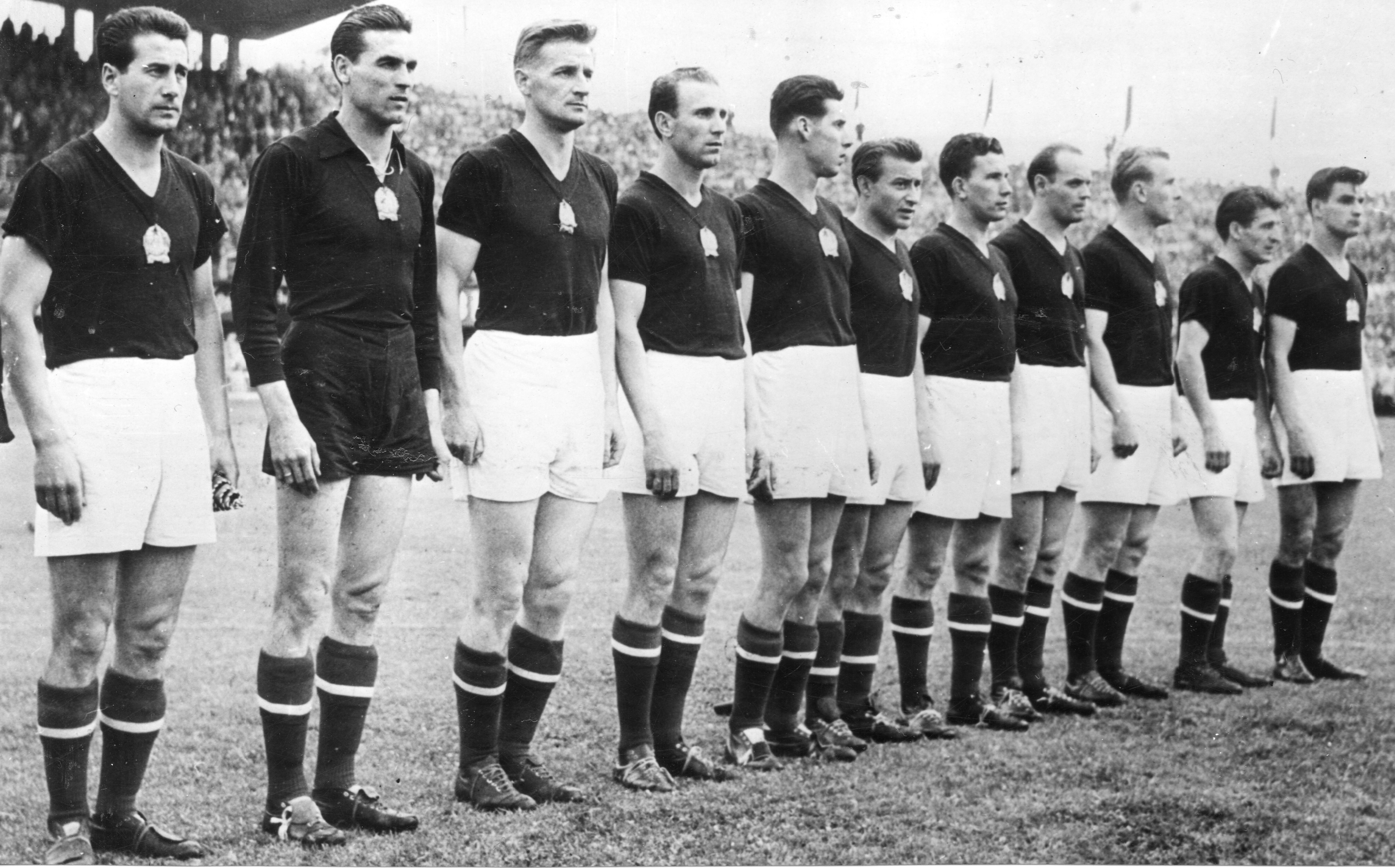 Hungarian national football team: Bozsik, Grosics, Lóránt, Hidegkuti, Palotás, Budai II, Zakariás, Buzánszky, Lantos, Czibor, Kocsis, in 1954 FIFA World Cup semi-final match, Hungary 4-2 Uruguay, in Lausanne, Switzerland on 30 June 1954.